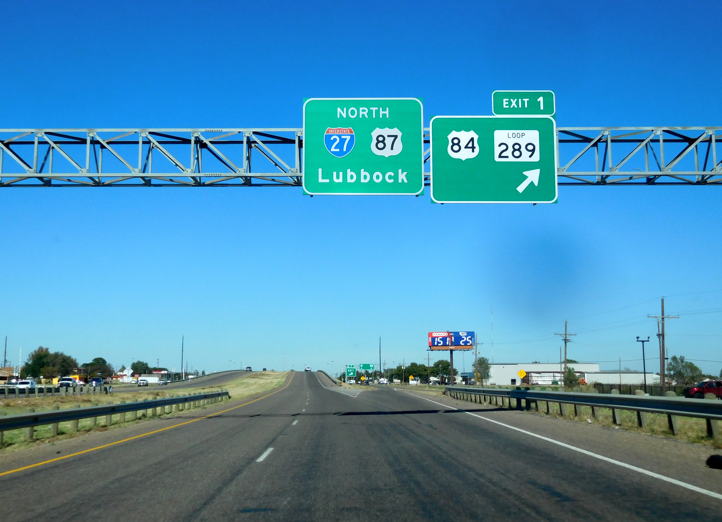 Approaching the southern terminus of Interstate 27 from U.S. Highway 87 northbound in Lubbock, Texas.